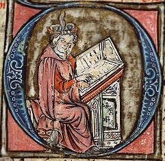 Portrait of the medieval Dutch author Jacob van Maerlant from the initial of a medieval manuscript of one of his works.